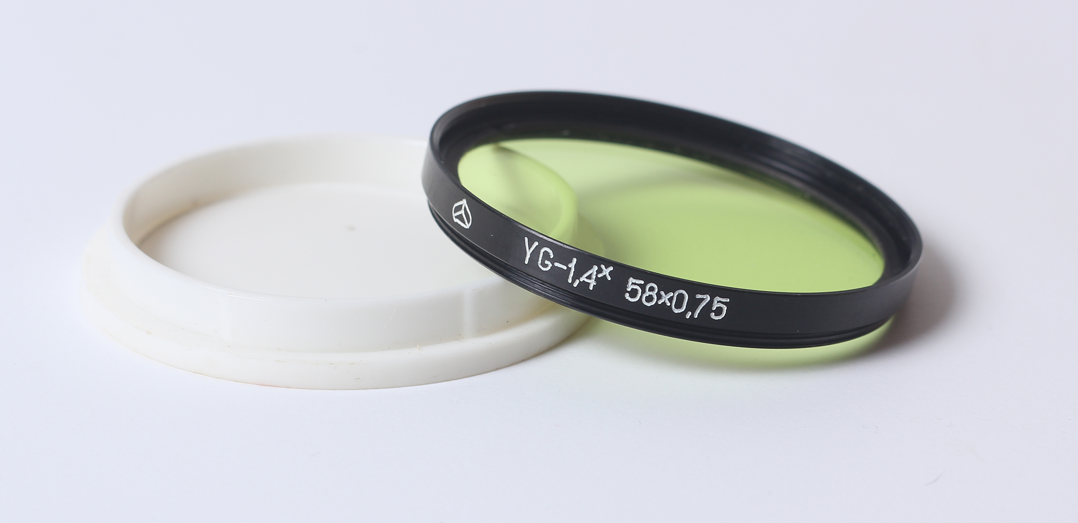 Optical filter